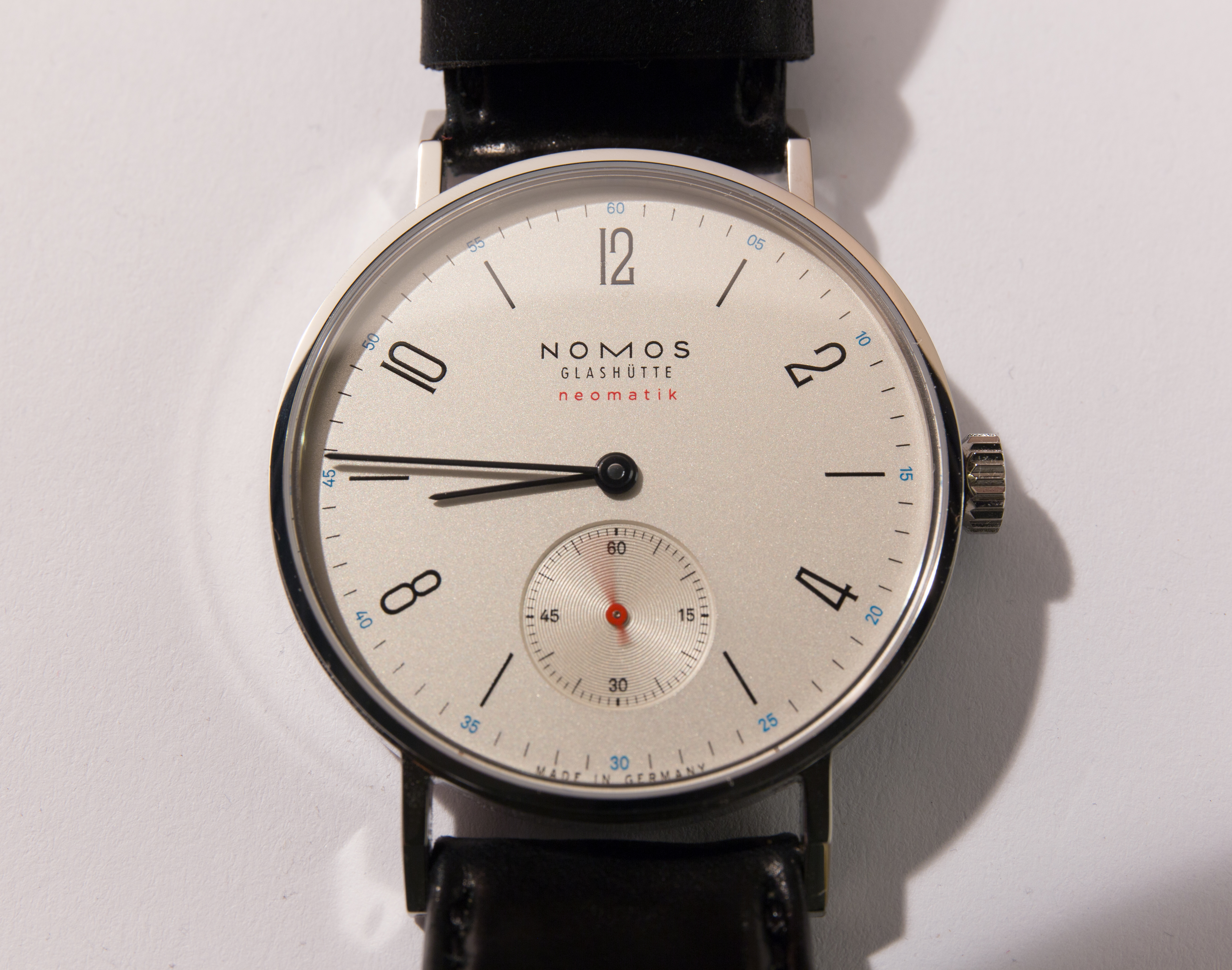 Nomos, Tangente, neomatik